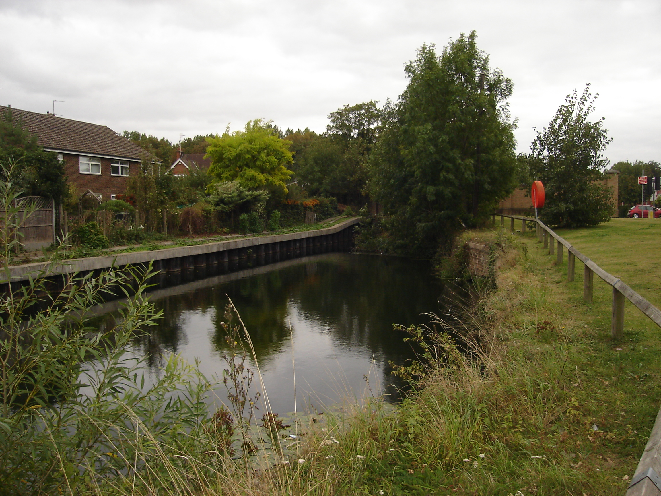 Picture of the Millhead Stream, at Beaulieu Drive, Waltham Abbey